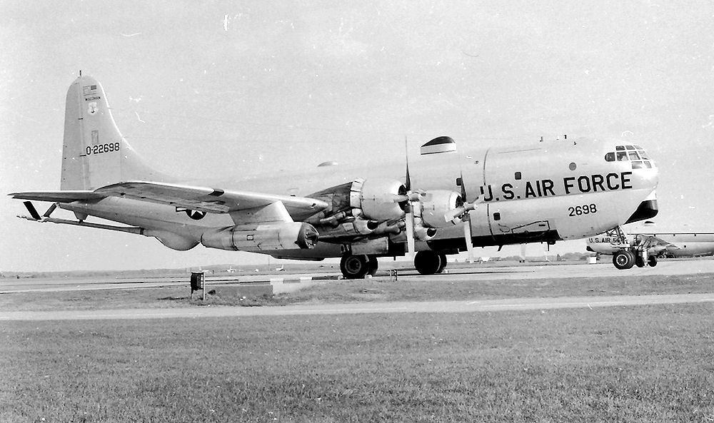 126th Air Refueling Squadron - Boeing KC-97L-26-BO Stratotanker 52-2698 After retirement Sold to civilian market as N1365N and remains in service (